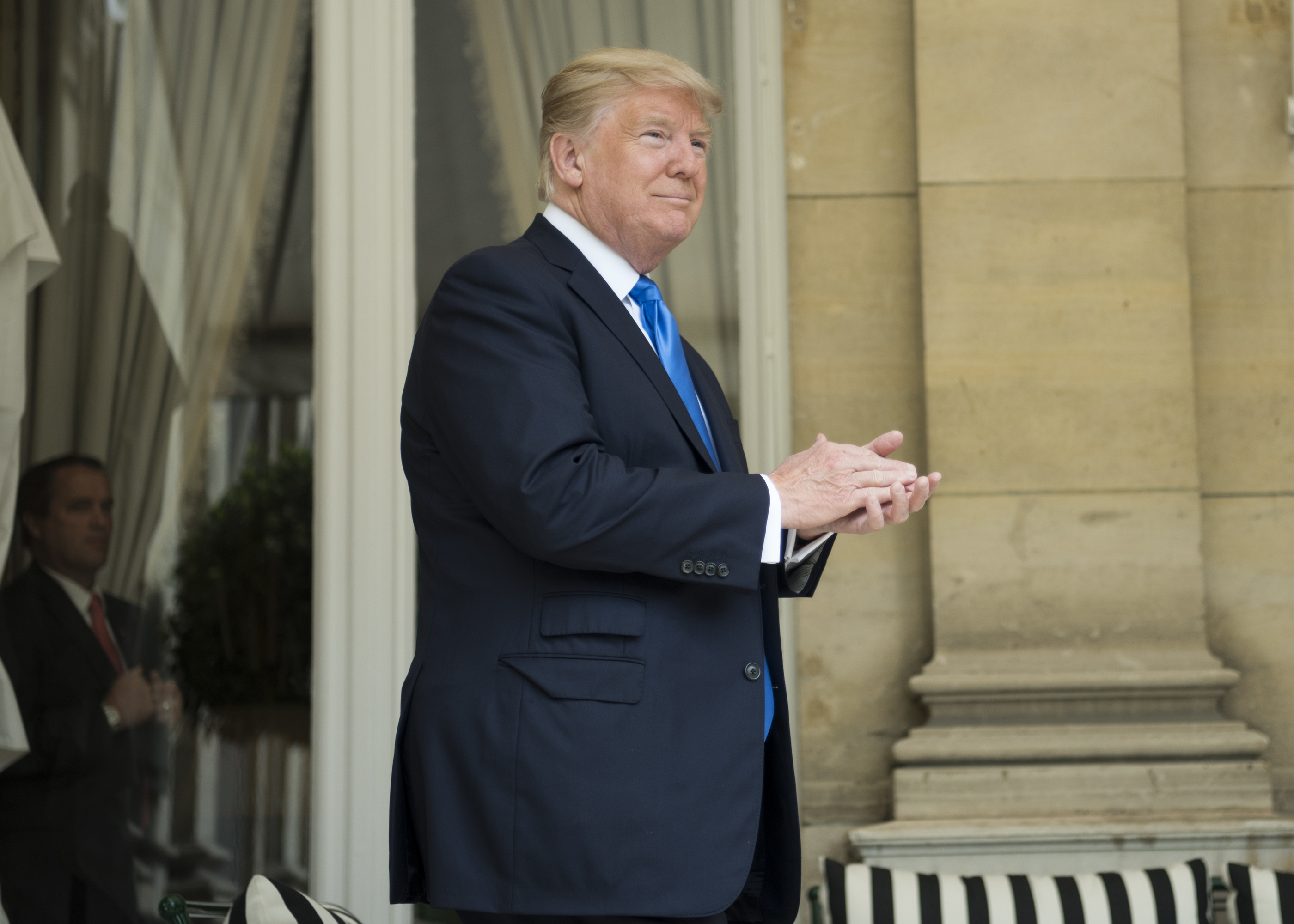 President of the United States Donald J. Trump, arrives at the U.S. Chief of Mission to France's residence to deliver remarks to Service Members in Paris on the Eve of Bastille Day July 12, 2017. This year, the U.S. will lead the parade as the country of honor in commemoration of the centennial of U.S. entry into World War 1 - as well as the long-standing partnership between France and the U.S. (Dept. of Defense photo by Navy Petty Officer 2nd Class Dominique A. Pineiro/Released) Unit: Office of the Chairman of the Joint Chiefs of Staff DVIDS Tags: USMC; France; Paris; Chairman; Joseph F. Dunford; Joint Staff; Navy; Air Force; Marine Corps; Marines; Army; parade; Bastille Day; Joseph F. Dunford Jr.; General Dunford; Joe Dunford; Bastille; 19th CJCS